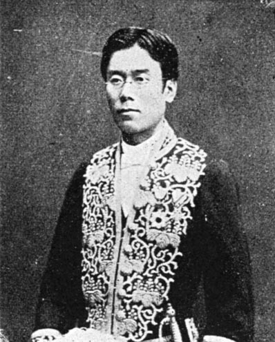 Kawazu Sukeyuki.